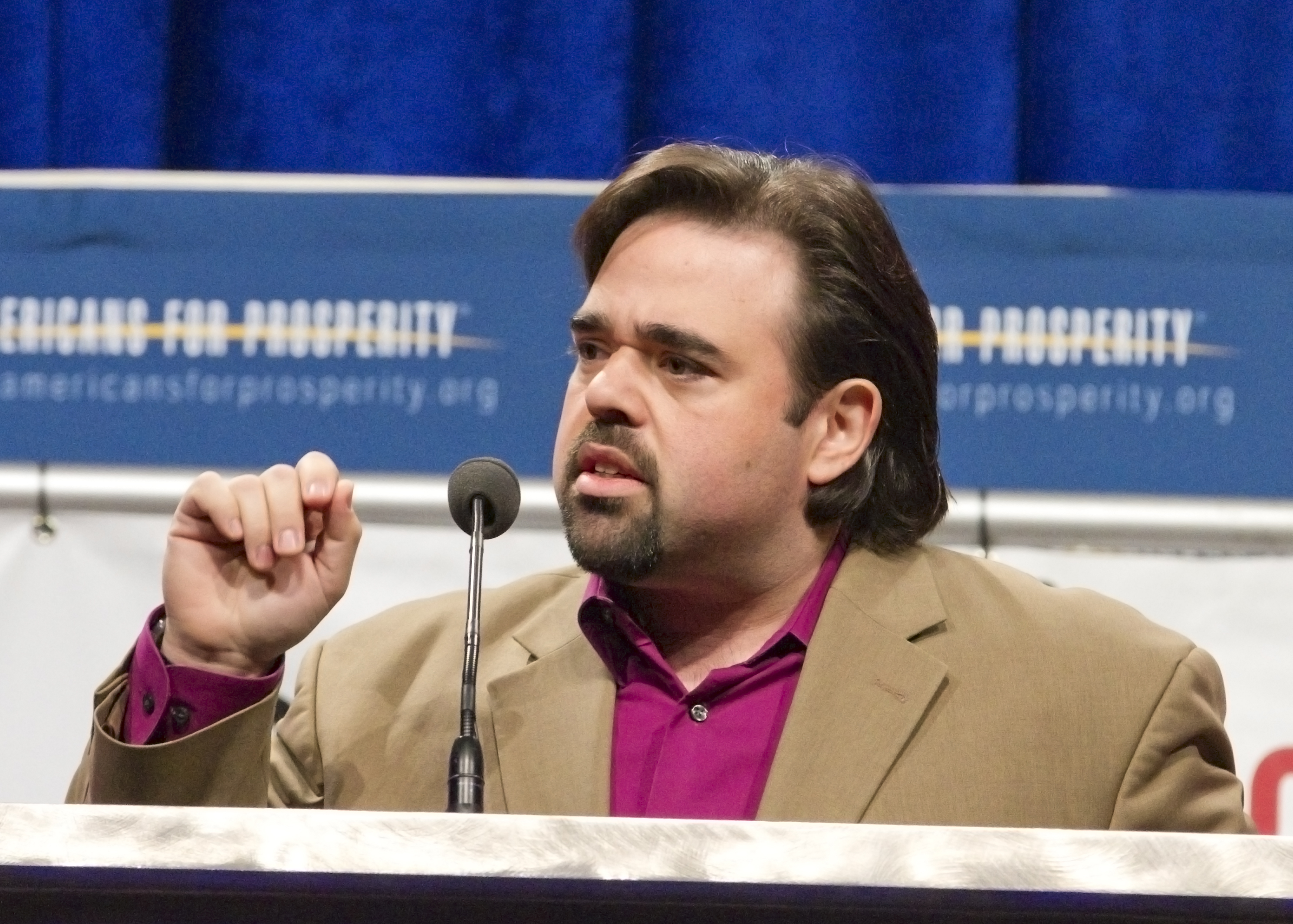 Photos taken at the Americans for Prosperity Defending the American Dream Conference on November 4 and 4 2011.